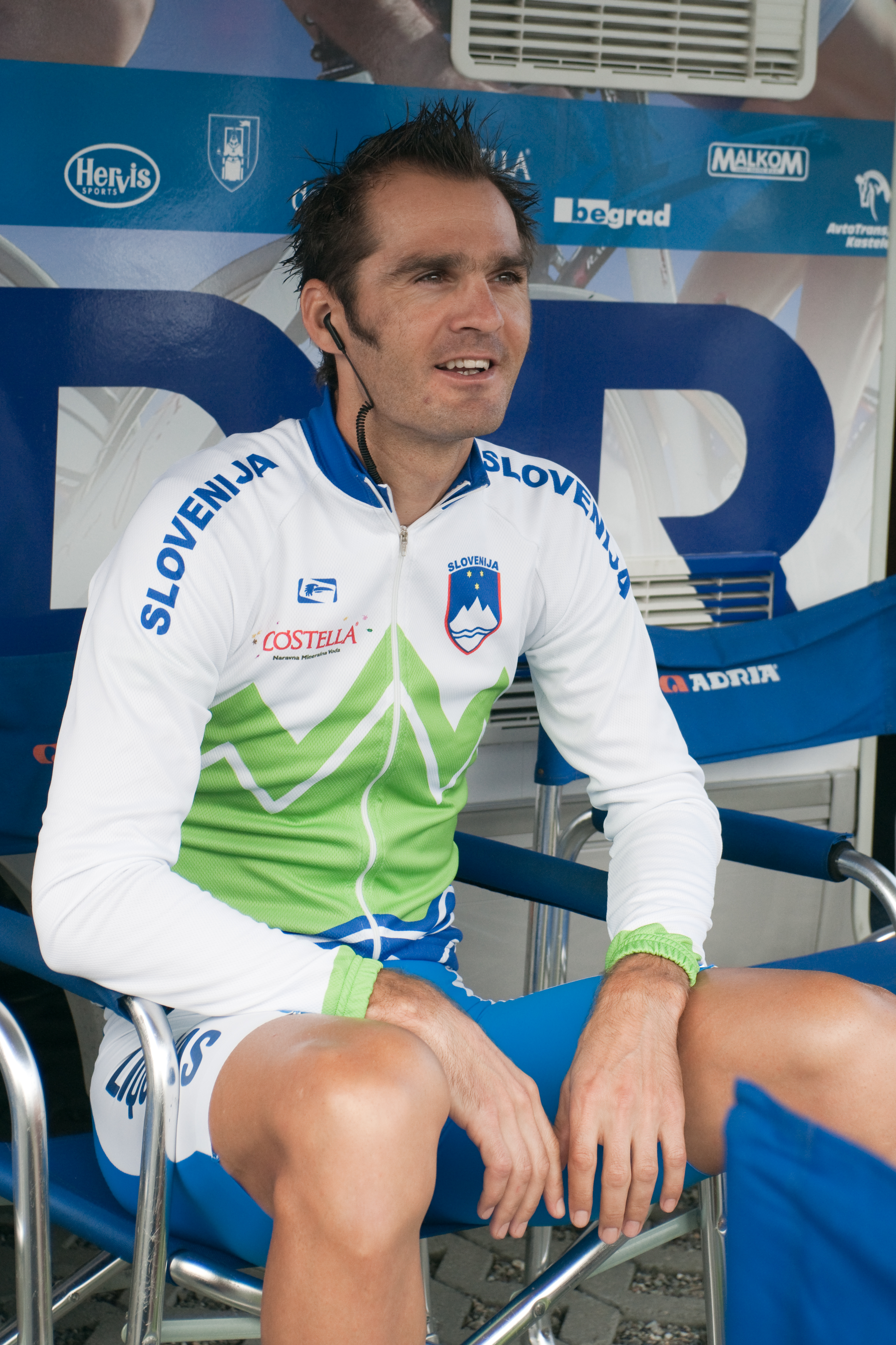 Gorazd Stangelj during the 2009 UCI Road World Championships in Mendrisio, Switzerland.